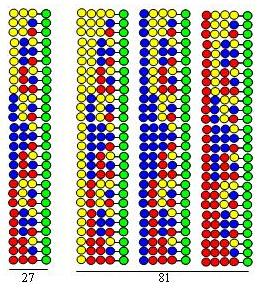 Tri and tetrapeptides forming in cycles 3 and 4 in split mix synthesis